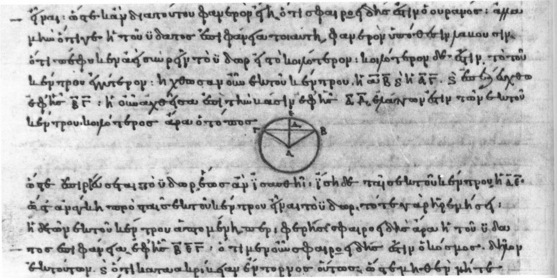 A diagram on Aristotle, On the Heavens 287b7 ff.: Proof of the spherical shape of the water surface. Vienna, Österreichische Nationalbibliothek, Phil. graec. 100, fol. 69r.